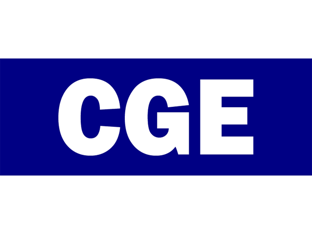 User created fantasy banner using the letters CGE on blue background. Fan art related to Club de Gimnasia y Esgrima La Plata